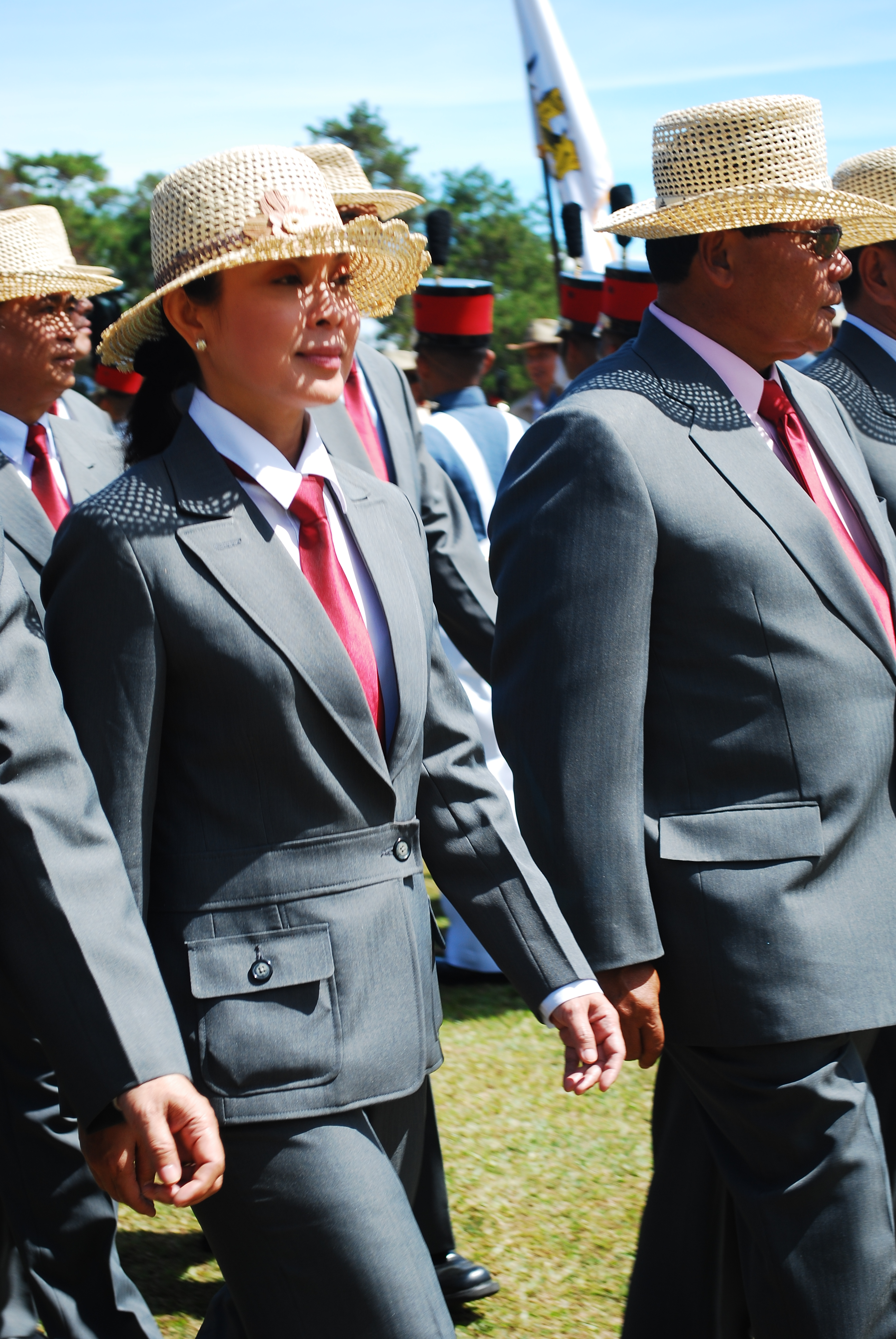 PMA Batch '69